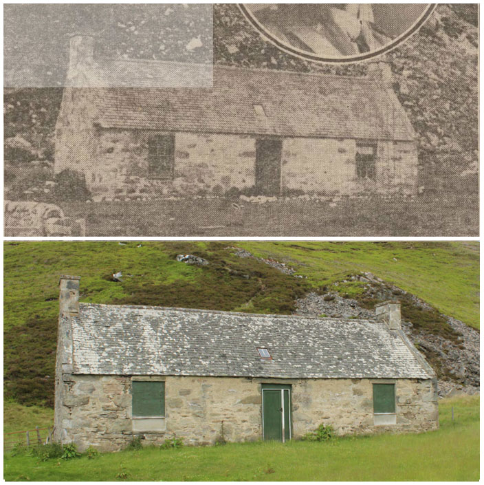 The bothy lies on the A939 road from Tomintoul to Ballater, within a few miles of the Lecht Ski Centre in the Scottish Highlands. Nicknamed 'Toplis Cottage' by locals, the bothy was attracting tourists as early as Summer 1920. A report from the The Daily Herald dated August 20th 1920 reads: "Toplis Cottage - the lonely house in remote Tomintoul which was the scene of the shooting incident in which the notorious desperado figured - has become a place of pilgrimage for holiday visitors, Motor-cars conveying tourists to the cottage are being run from both Speyside and Donside, and, despite the out-of-the-way nature of the spot, many hundreds of curious sightseers have visited the cottage this summer. On the door of the building is inscribed the words, "Toplis Cottage." Several bullet-holes are prominently marked."